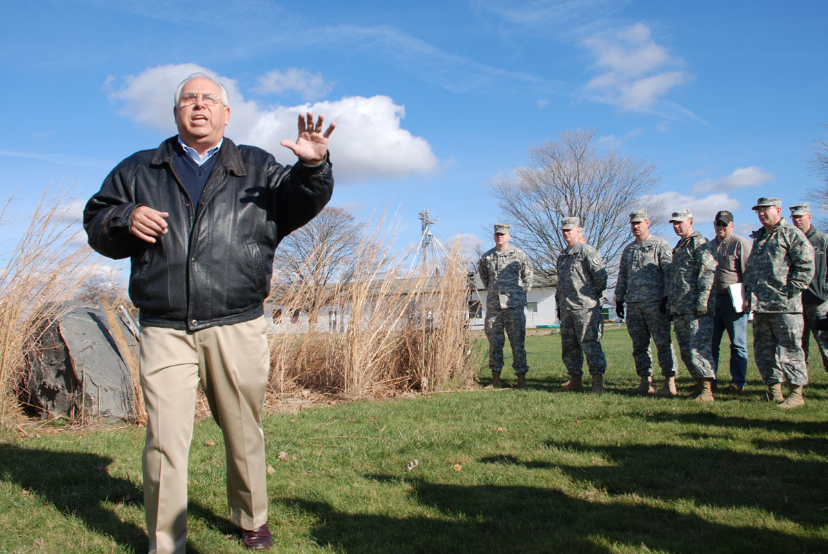 Purdue University agronomy professor George Van Scoyoc explains the difference between forest and prairie soils to Soldiers of the Indiana National Guardís 1-19th Agribusiness Development Team at the Beck Agricultural Center in West Lafayette, Ind. on Tuesday, Nov. 18, 2008. The Citizen-Soldiers will use this training and their civilian acquired skills to help Afghanistan farmers when the team deploys in 2009. "The opportunity to use our civilian skills for something positive is a rarity in what we do," said Capt. Brian Pyle.